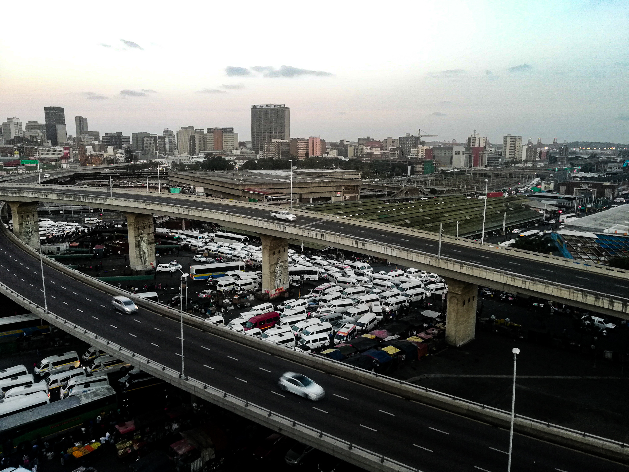 Market Rush Hour. This is an image with the theme "Africa on the Move or Transport" from: South Africa